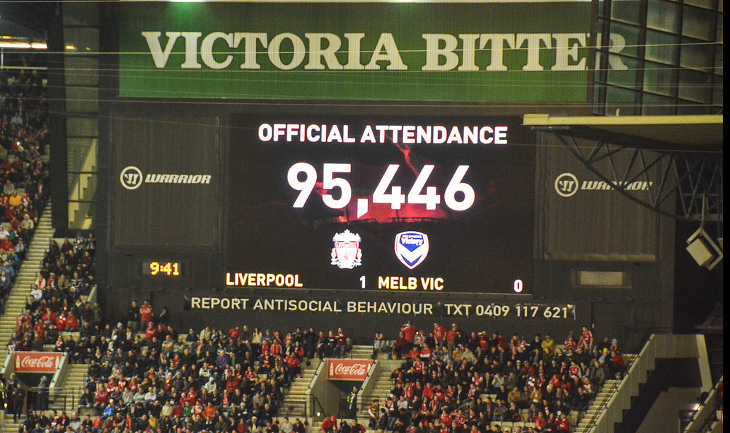 crowd at the mcg for melbourne vs liverpool